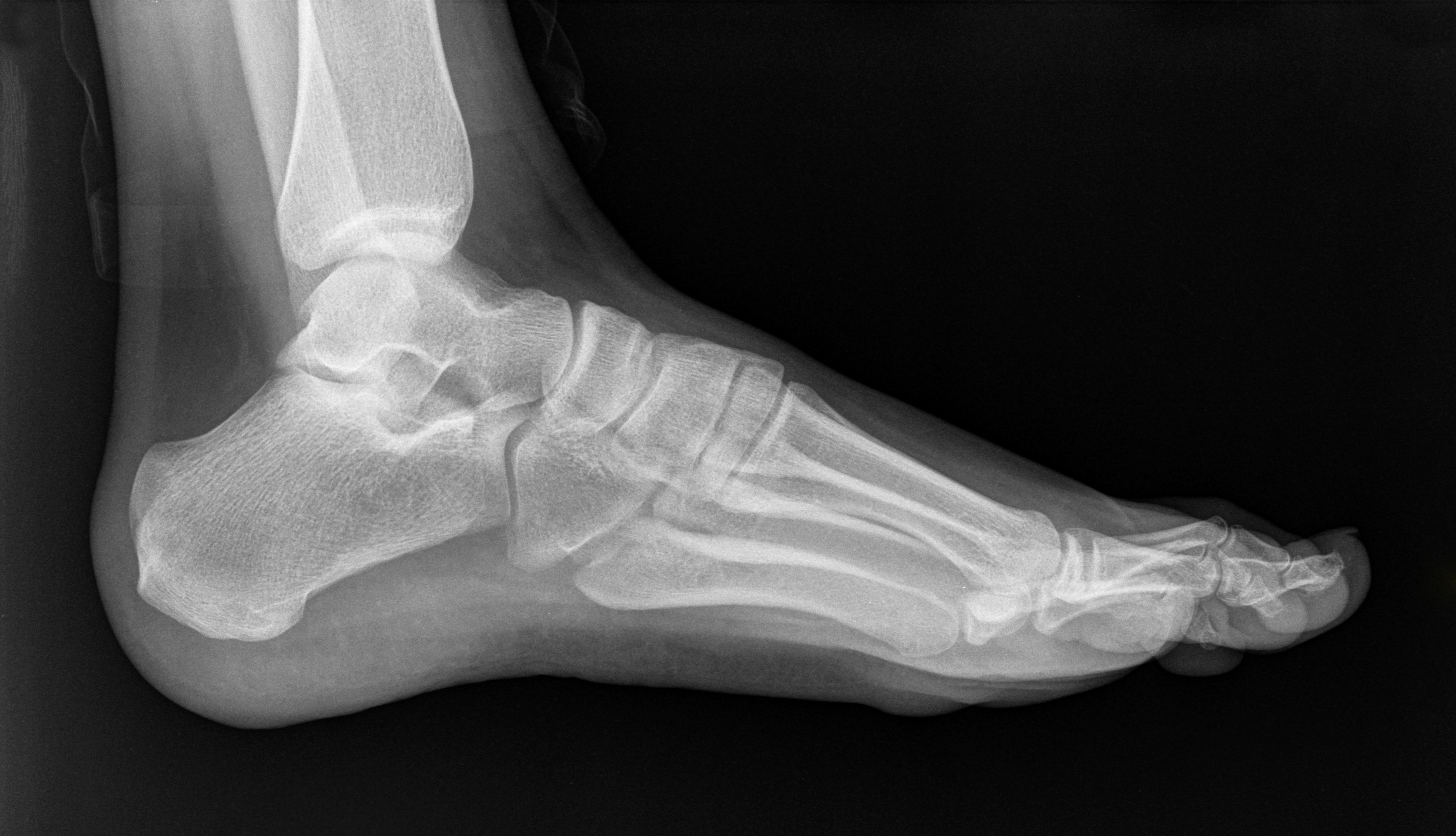 Medical X-ray of flat feet